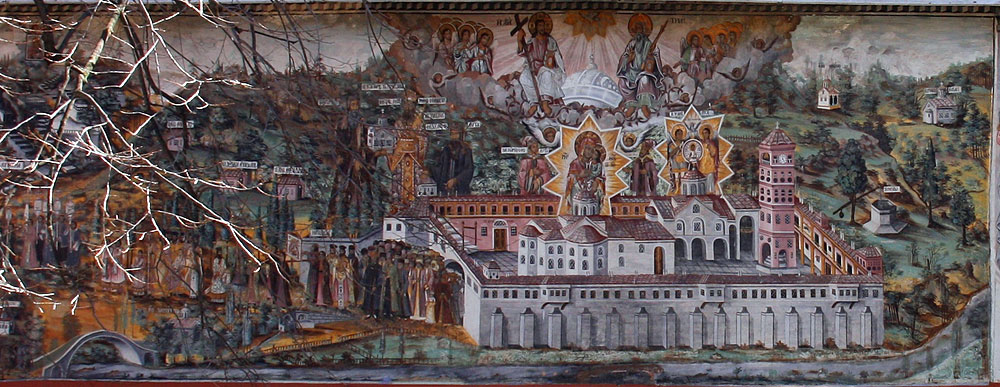 Bachkovo Monastery Dining Room Northern Wall Fresco